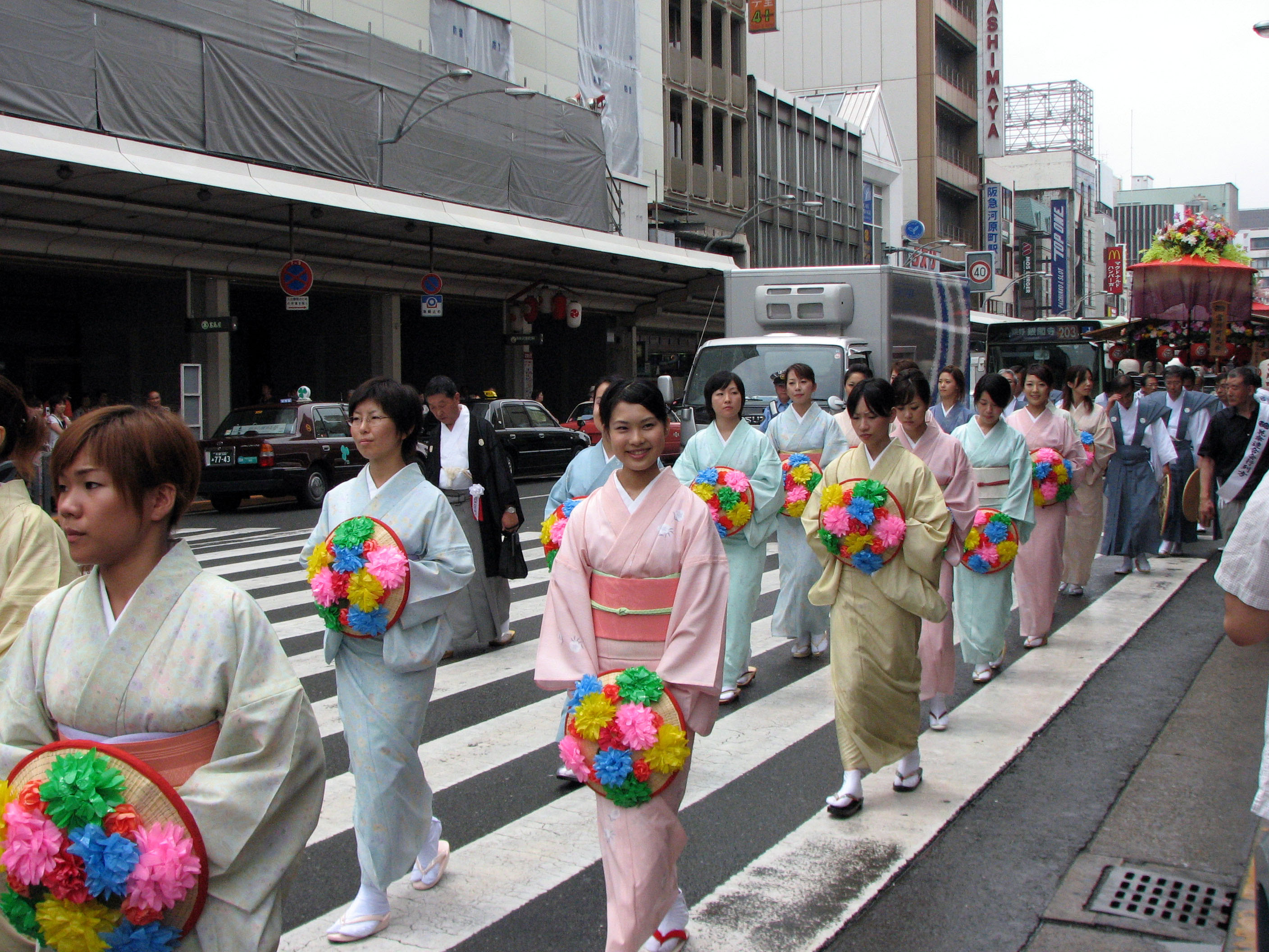 Shijo procession of the Gion Matsuri